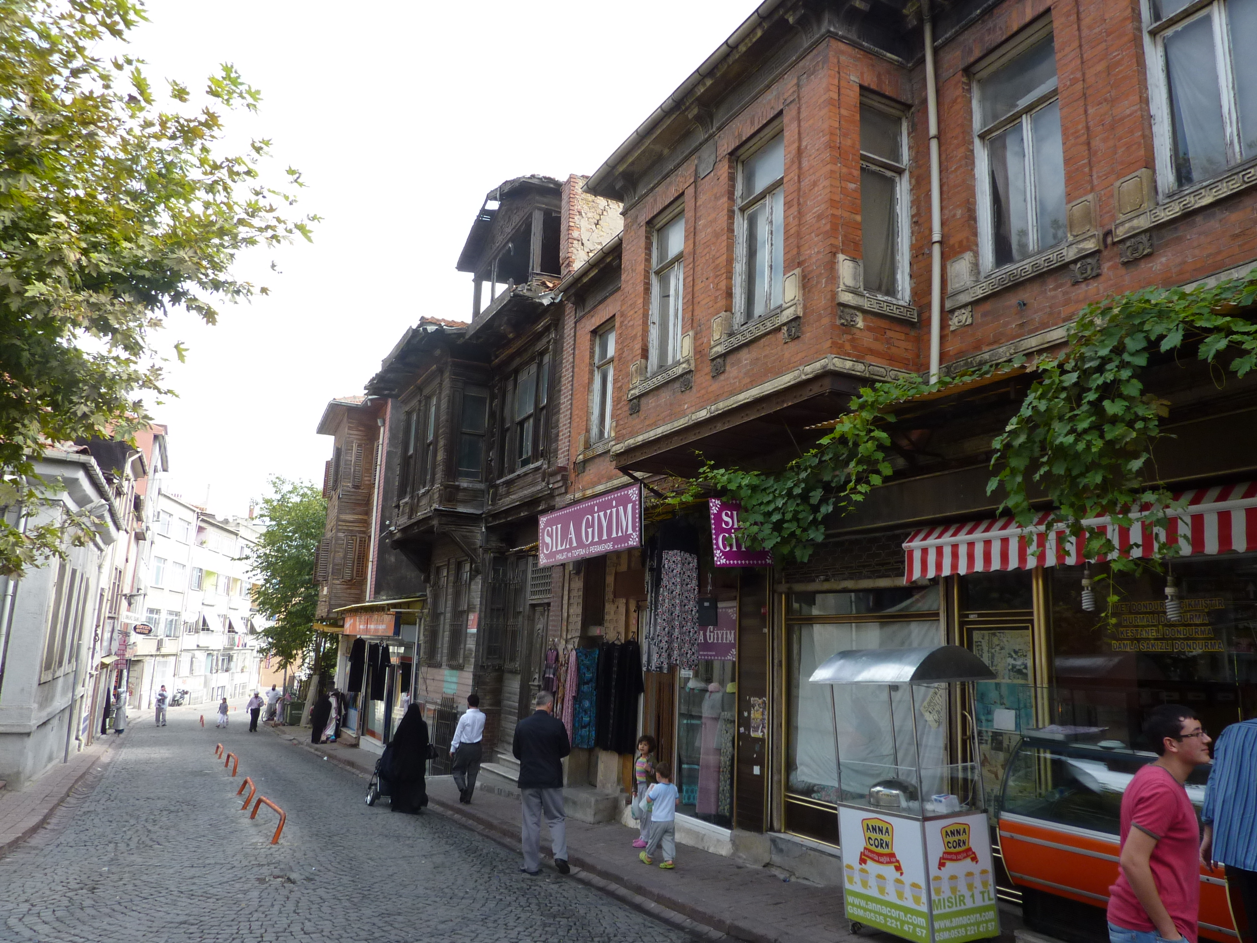 On the streets of Phanar.